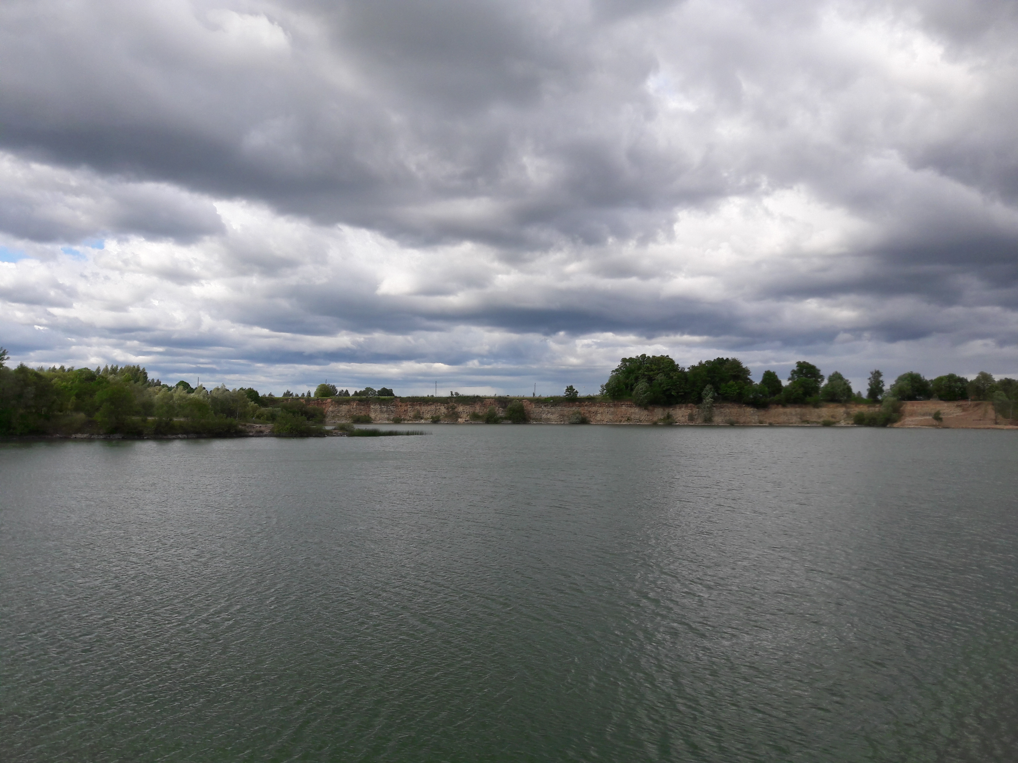 The north shore of Lauciņu dolomite quarry in Cēsis, Latvia.